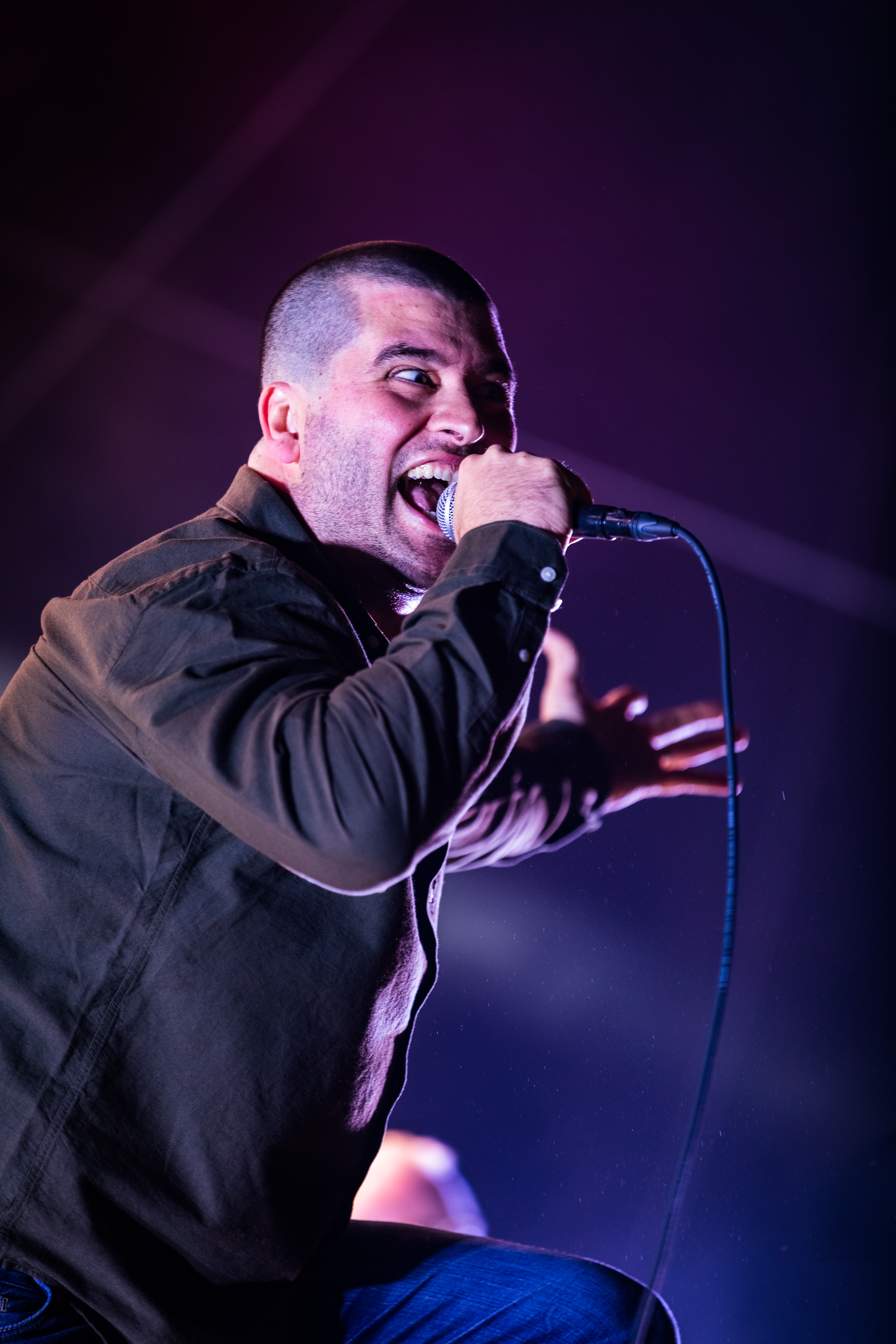 Alexisonfire - Rock am Ring 2018